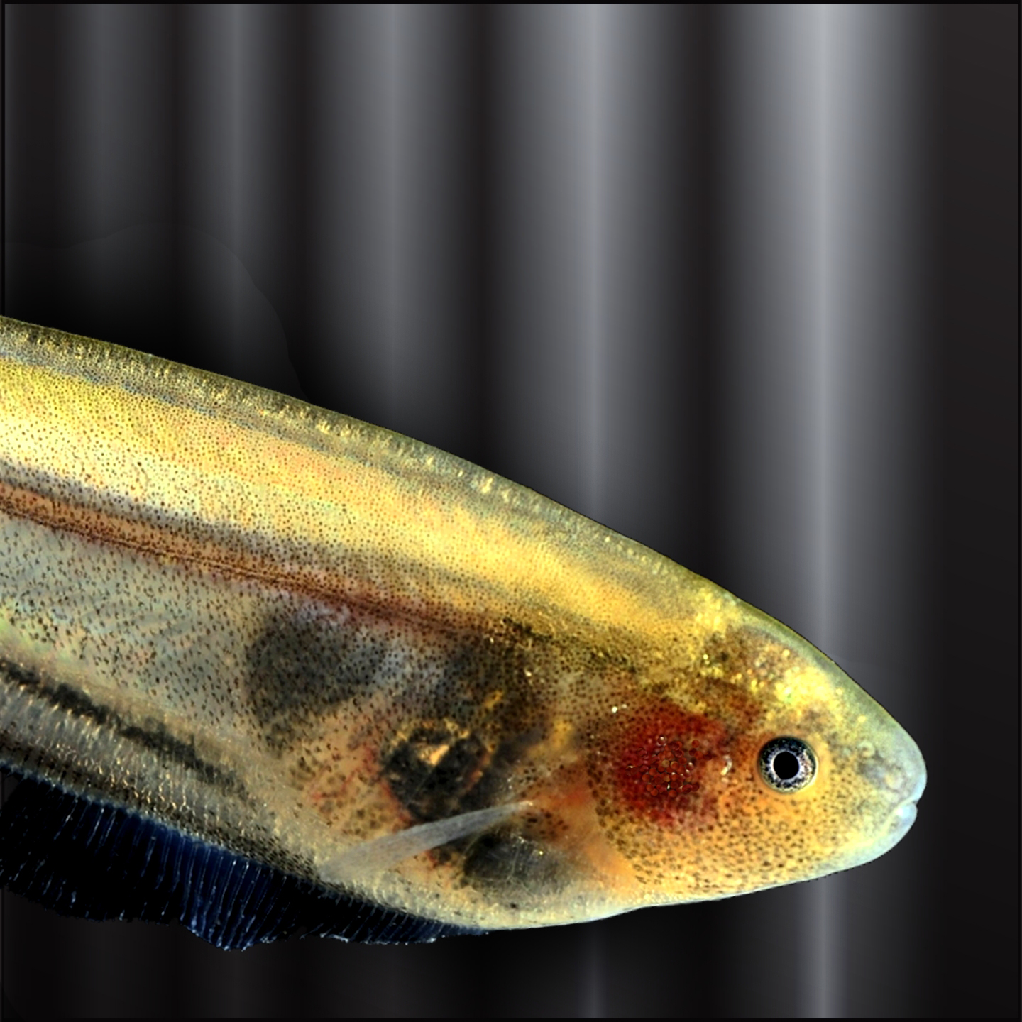 Eigenmannia virescens - head